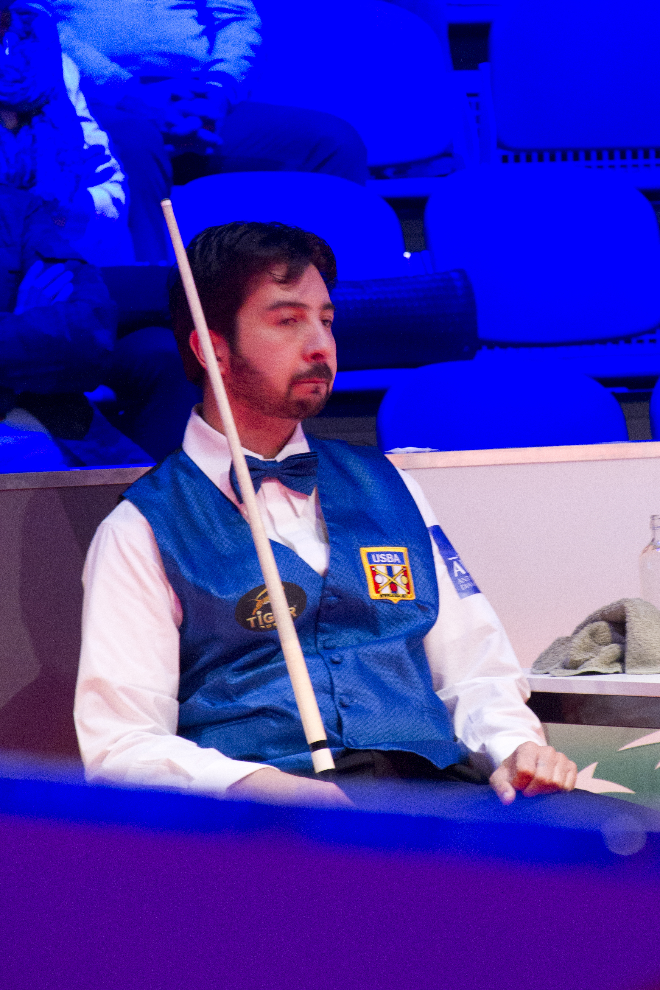 Portrait of Pedro Piedrabuena. Cropped from File:2013 3-cushion World Championship-Day 3-Session 2-16.